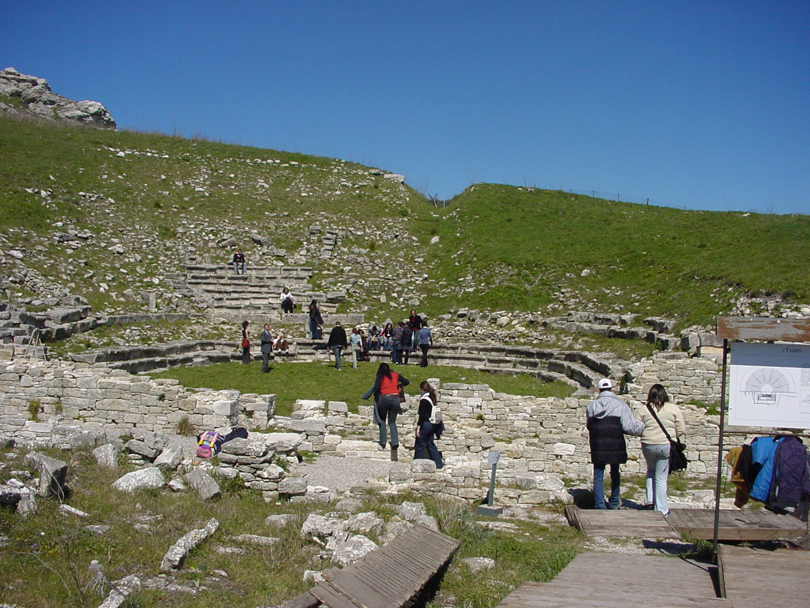 The ancient theater of Monte Iato, Sicily